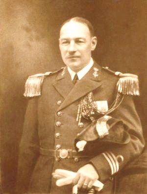 Karel Doorman (1889-1942) as commander.